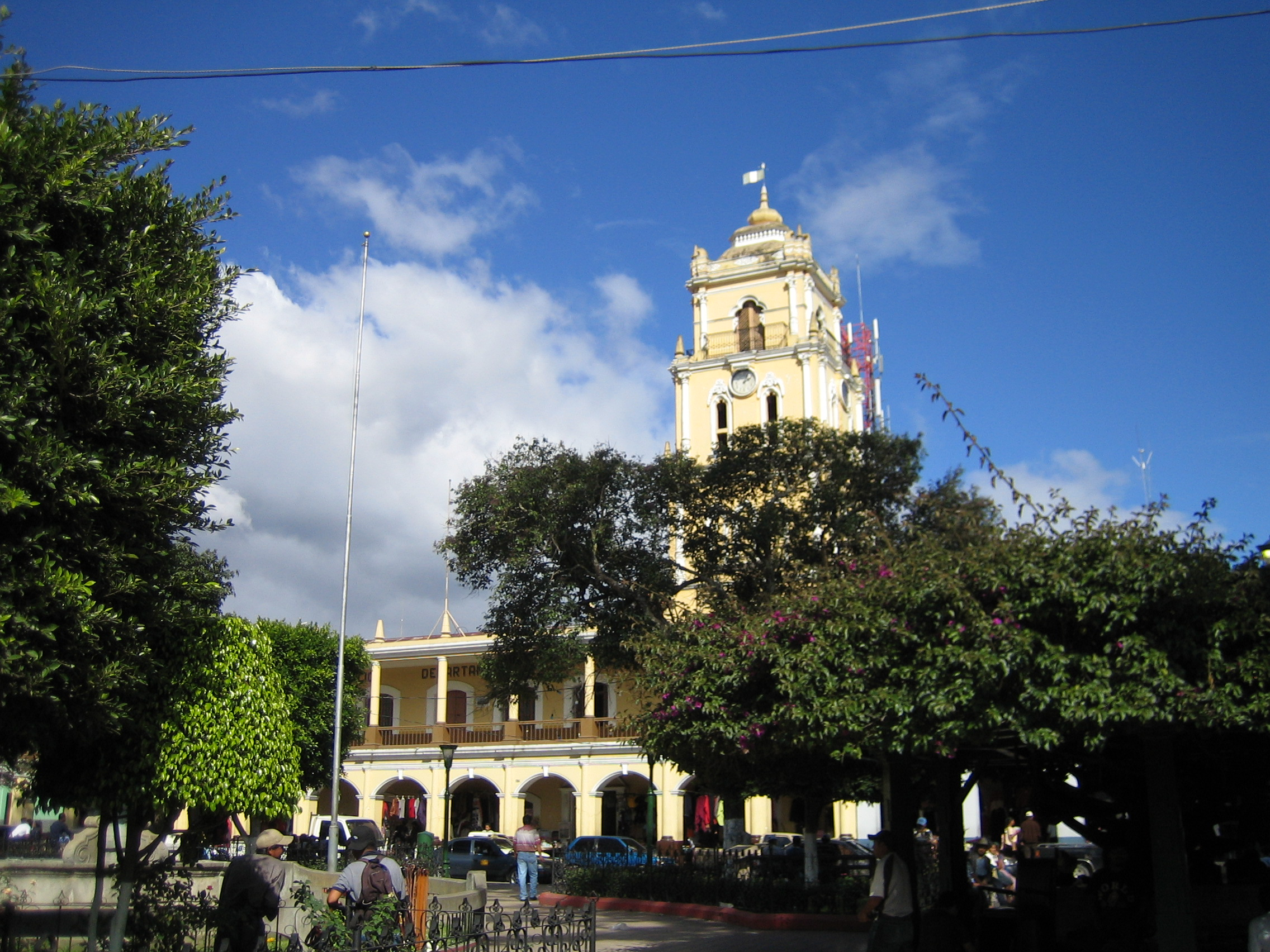 Centre of Huehuetenango